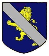 Novi Ligure Council, Delle Piane Palace, GPL, Delle Piane family Coat of Arms, (Medieval Ages).